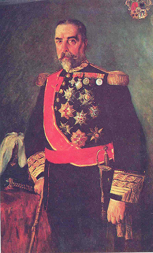 Portrait of Governor of Cuba Ramon Blanco (1833-1906)